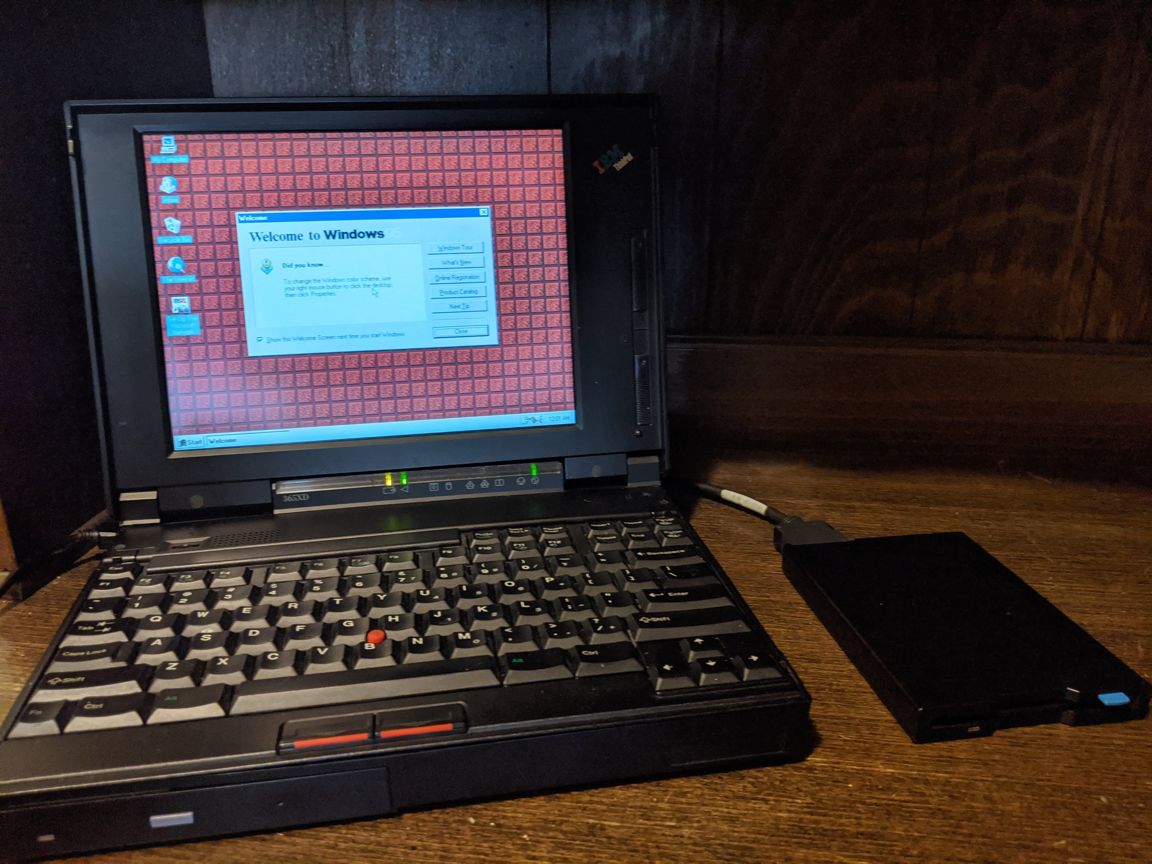 Taken in my house. IBM Thinkpad 365XD running Windows 95B.